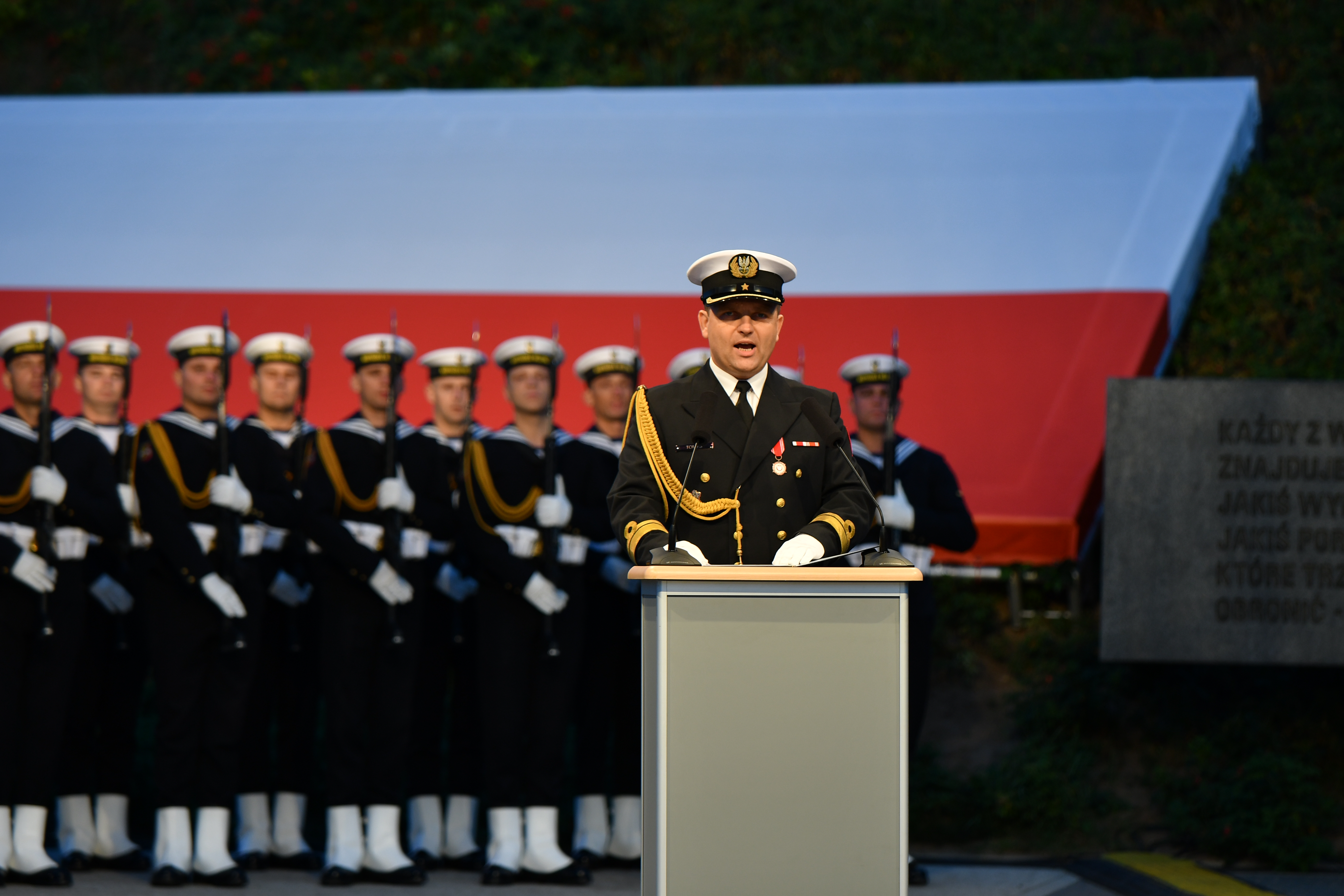 Westerplatte. Poland. Celebration of the 79th anniversary of the outbreak of World War II with the participation of the Marshal of the Sejm. On September 1, 1939, Nazi Germany invaded Poland. World War II began. On September 17, 1939, Soviet Russia attacked Poland from the east. Ribbentrop - Molotov Pact of August 23, 1939 with a secret annex. Hitler's Germany and Stalin's Russia, two dictatorial states invaded Poland. The fourth partition of Poland took place, between Hitler's Nazi Germany and Stalin's Soviet Russia.